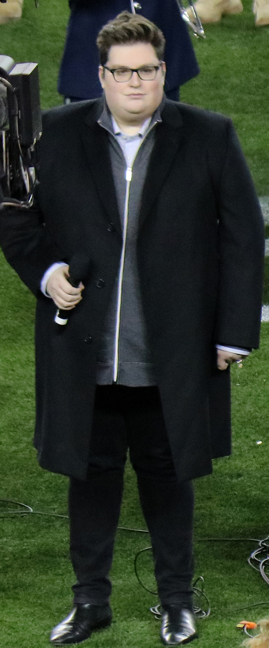 Jordan Smith, an American singer and musician.